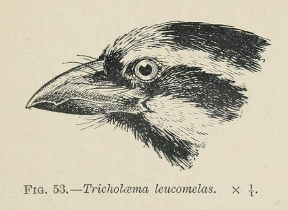 Acacia Pied Barbet hed details